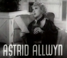 Cropped screenshot of Astrid Allwyn from the trailer for the film Follow the Fleet.